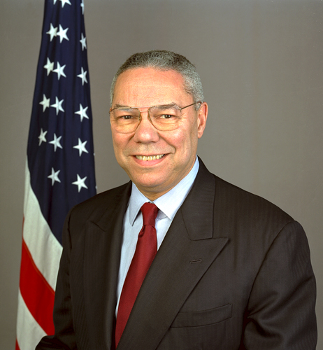 Official portrait of Colin L. Powell as the Secretary of State of the United States of America. Taken in January 2001.